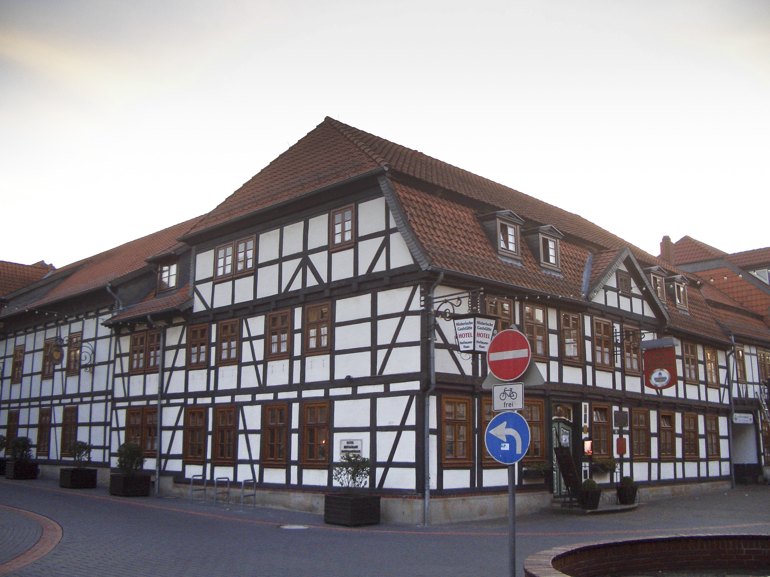 Street side of the Hoffmannhaus; Birth house of Heinrich Hoffmann of Fallersleben